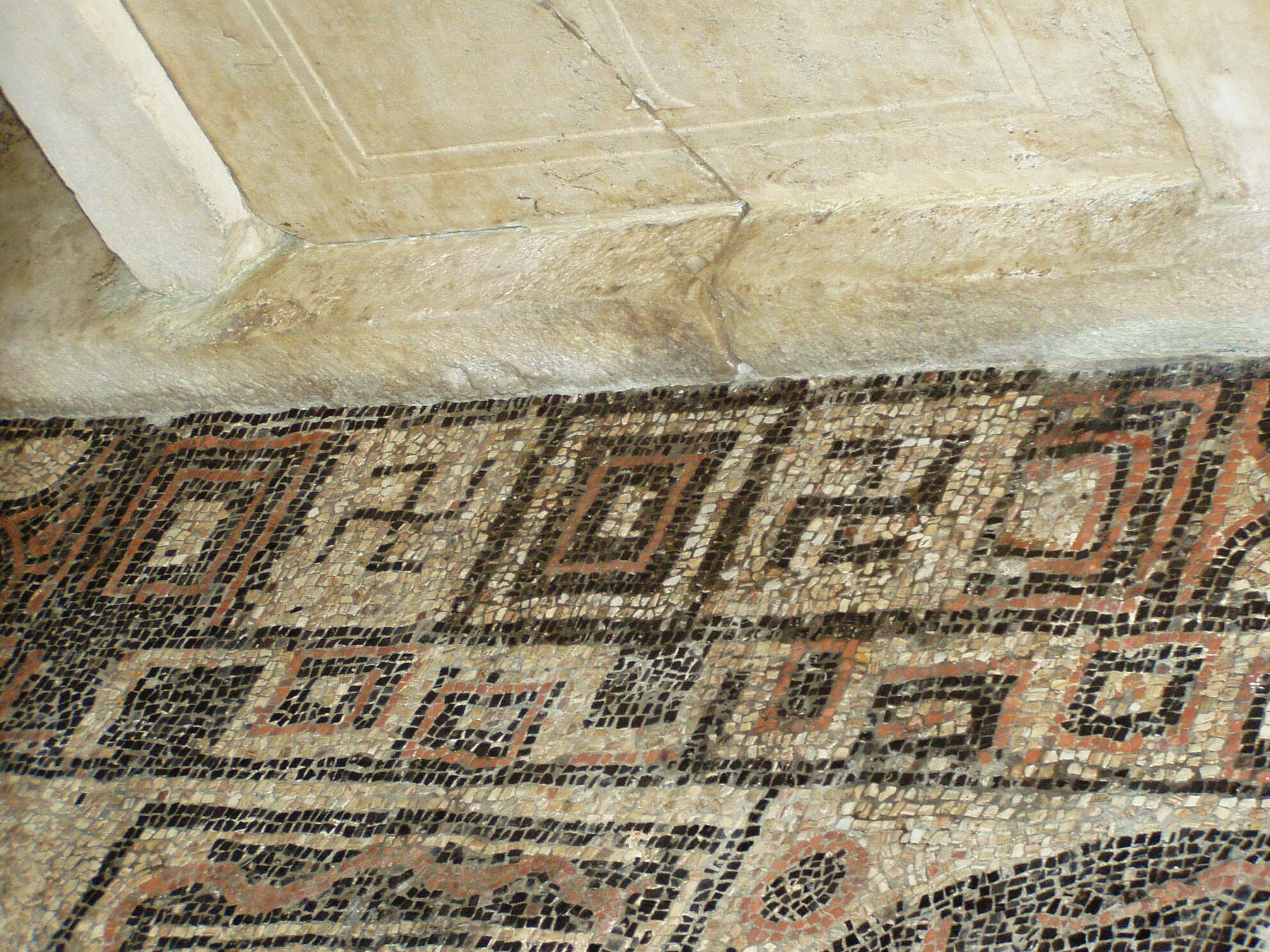 Teurnia, Carinthia, Austria: Mosaic of late Roman Baptist Church. Detail